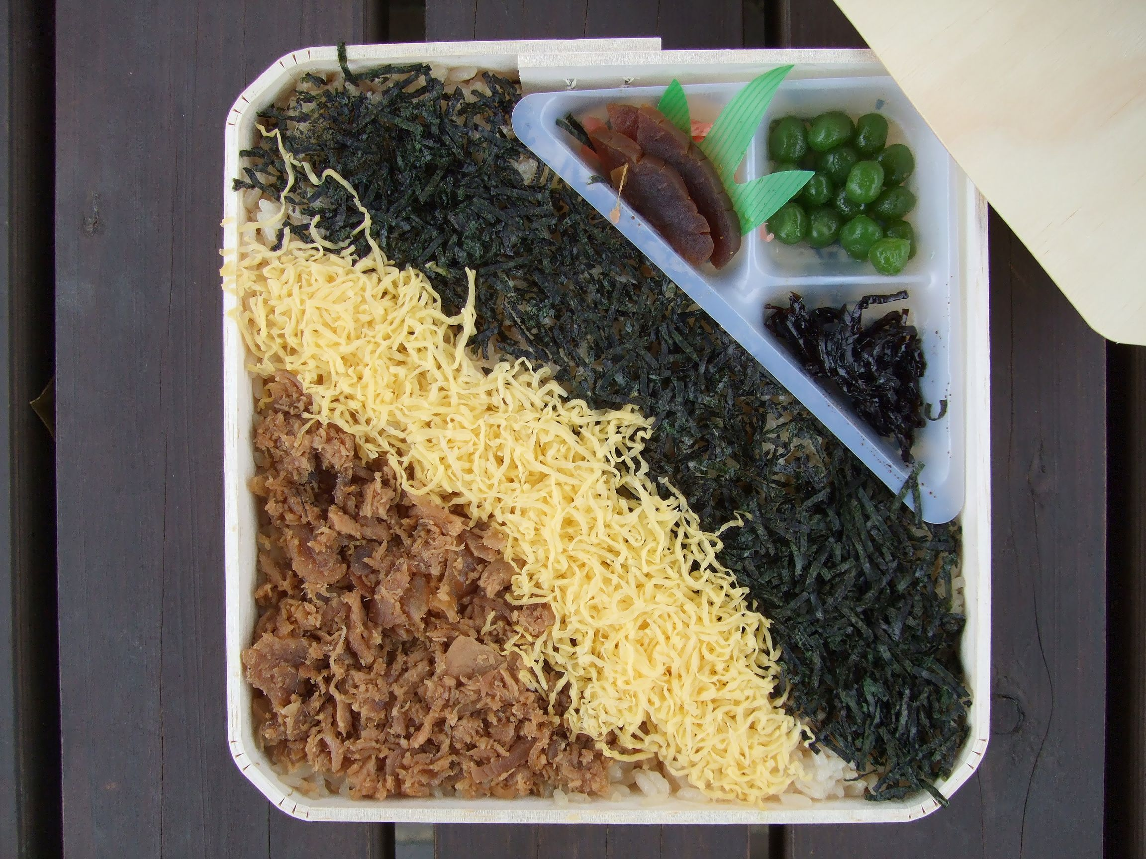 Kashiwameshi (Bento sold in Orio Station)